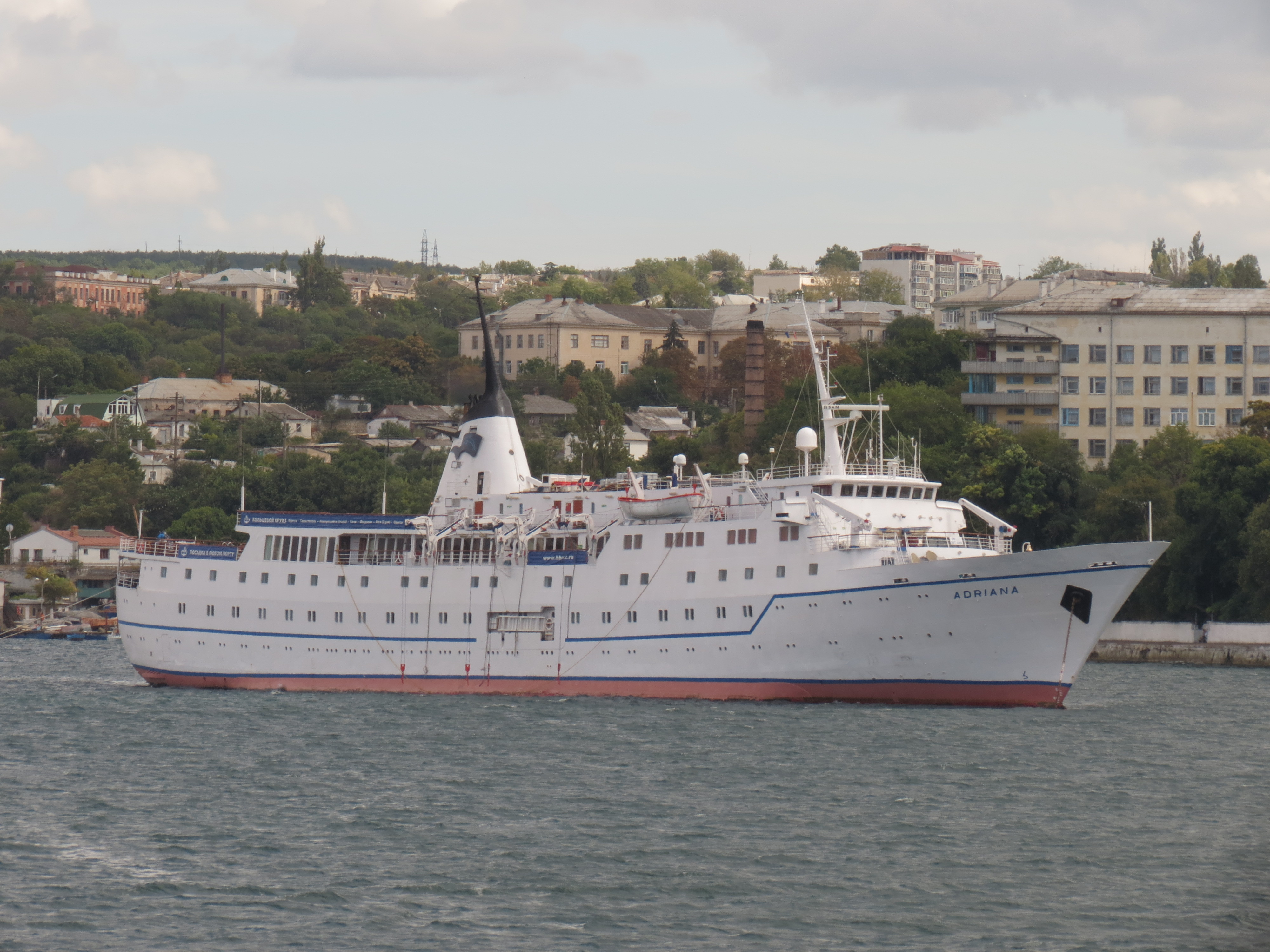 Sevastopol, Ukraine. Cruise ship Adriana